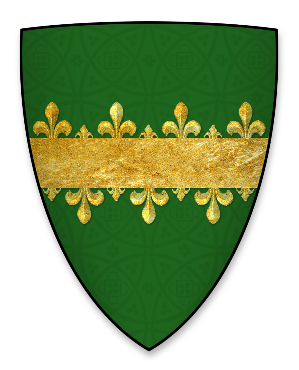 Coat of arms of William Hardel, Lord Mayor of London